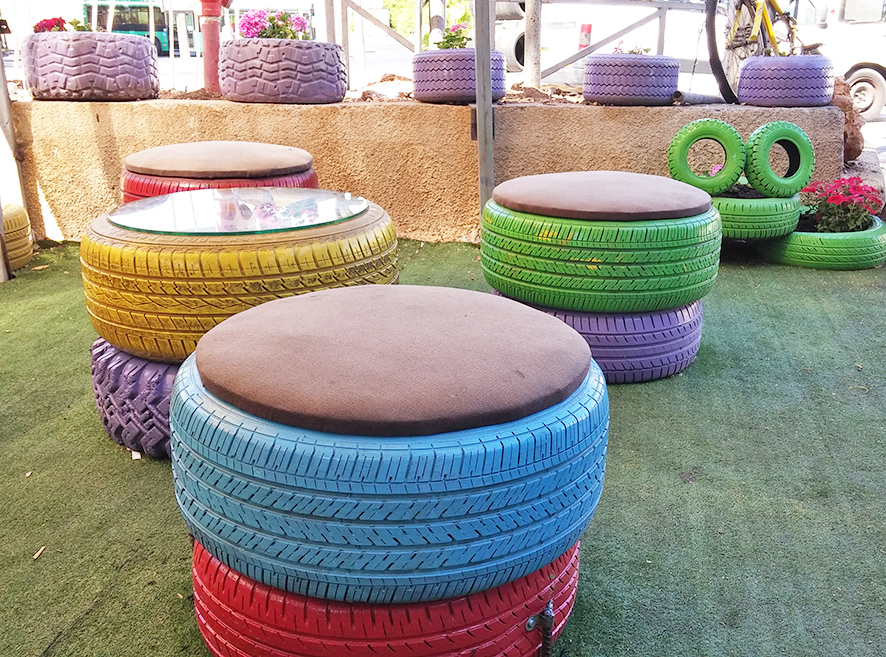 Tires in colorful use in Jerusalem Israel